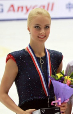 Silver Kiira Korpi at the 2009 Cup of China.